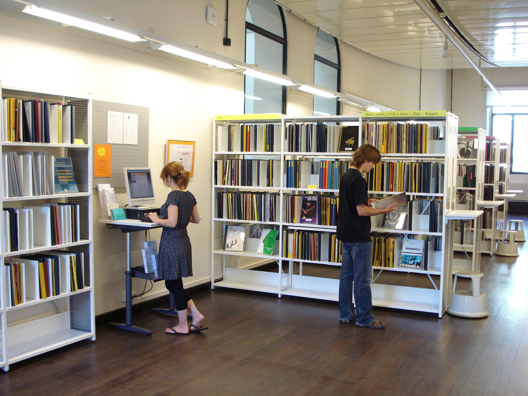 Music library